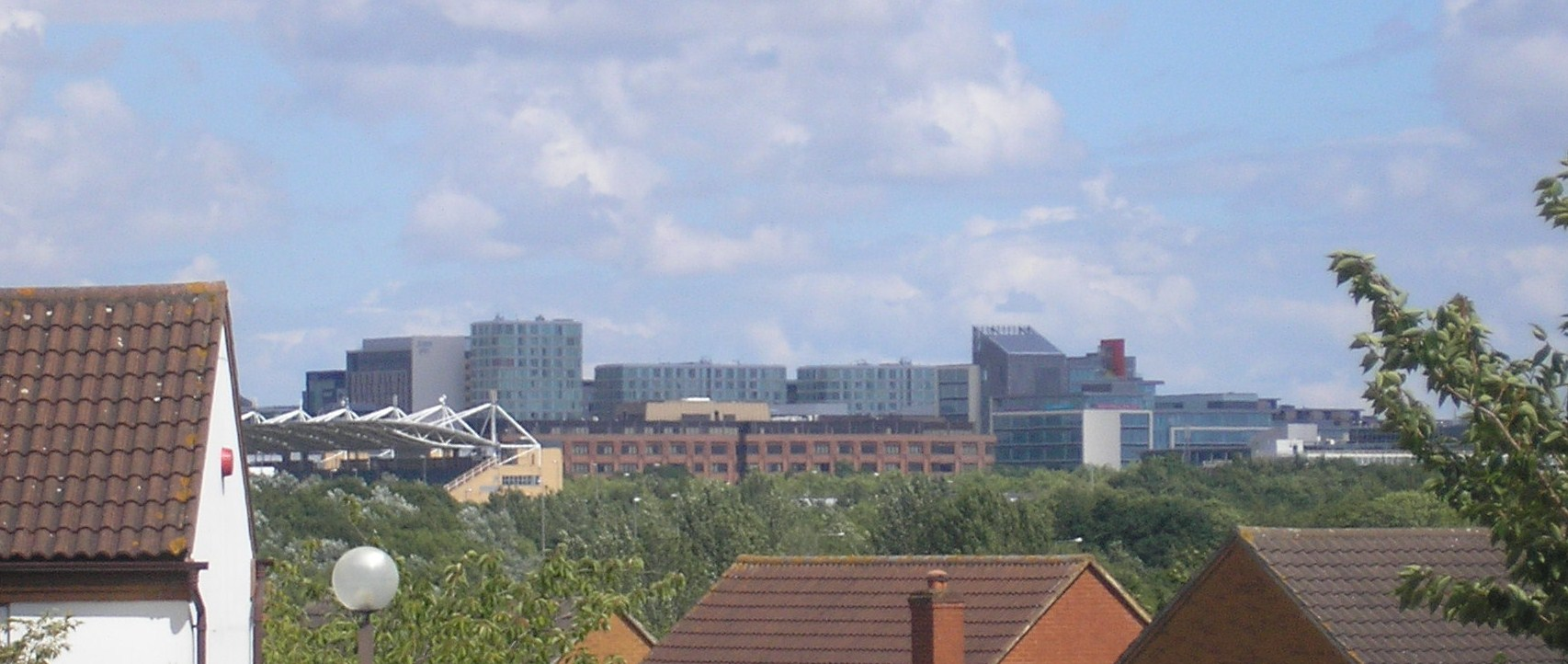 A view of the Central Milton Keynes skyline, as seen from Great Holm.